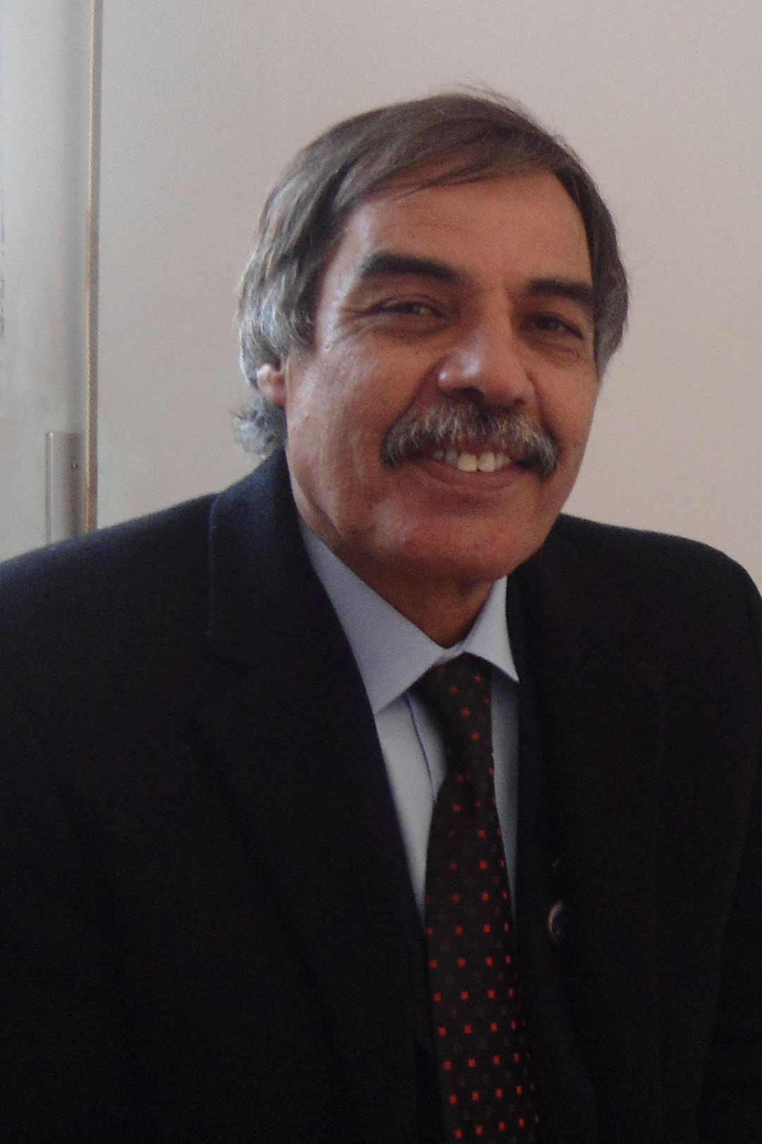 Cropped version of File:Ali Tarhouni.jpg for Libyan General National Congress election, 2012 infobox